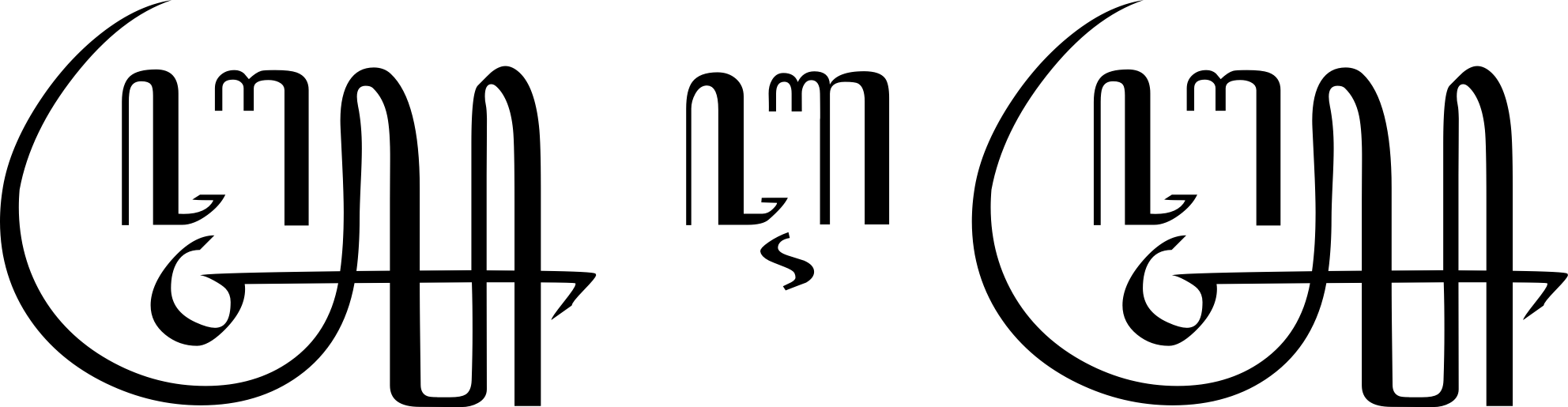 The 'wasana pada' symbol